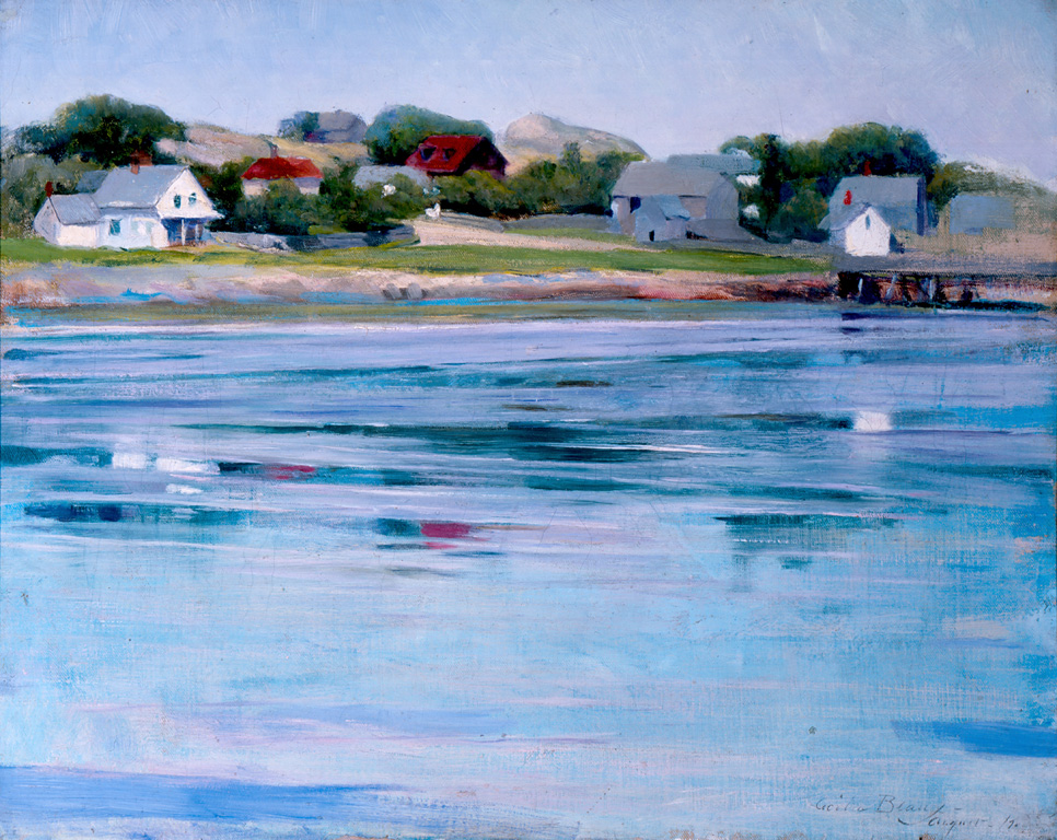 Widely regarded as the leading female artist working in the United States at the turn of the twentieth century, Cecilia Beaux was internationally acclaimed for her high-style portraits and figure paintings. Intimate and complex in mood and style, Half Tide, Annisquam River is a rare example of Beaux’s landscape work—the artist painted less than a dozen pure landscapes, and the locations of most of these are presently unknown. A nearby view from Beaux’s summer home and studio at Green Alley on Eastern Point in Gloucester, Massachusetts, this gemlike painting represents the artist’s only known landscape of Gloucester and one of her most freely painted Impressionist subjects.